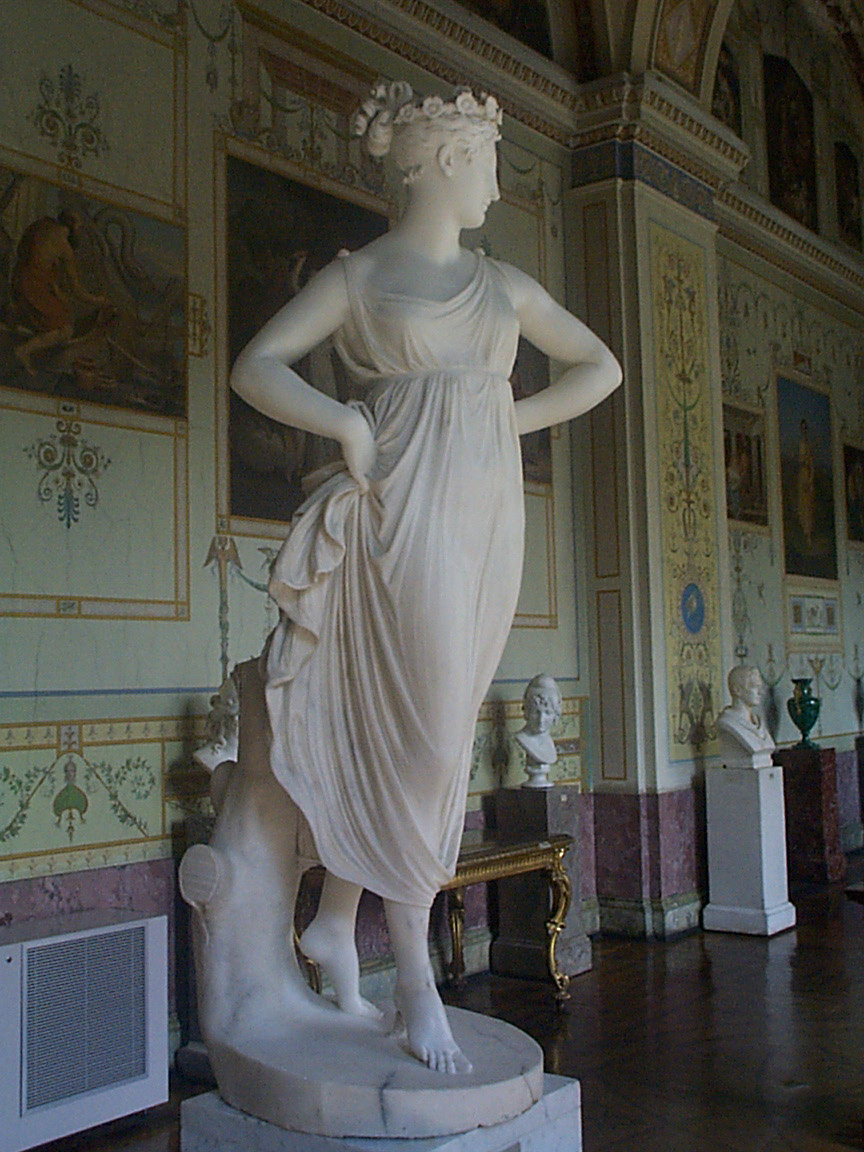 Dancer with her hands on her hips, by Antonio Canova. Sculpture completed 1812. Commissioned by Josephine Beauharnais. Acquired by Alexander I of Russia in 1816. Now at the Hermitage, St. Petersburg.